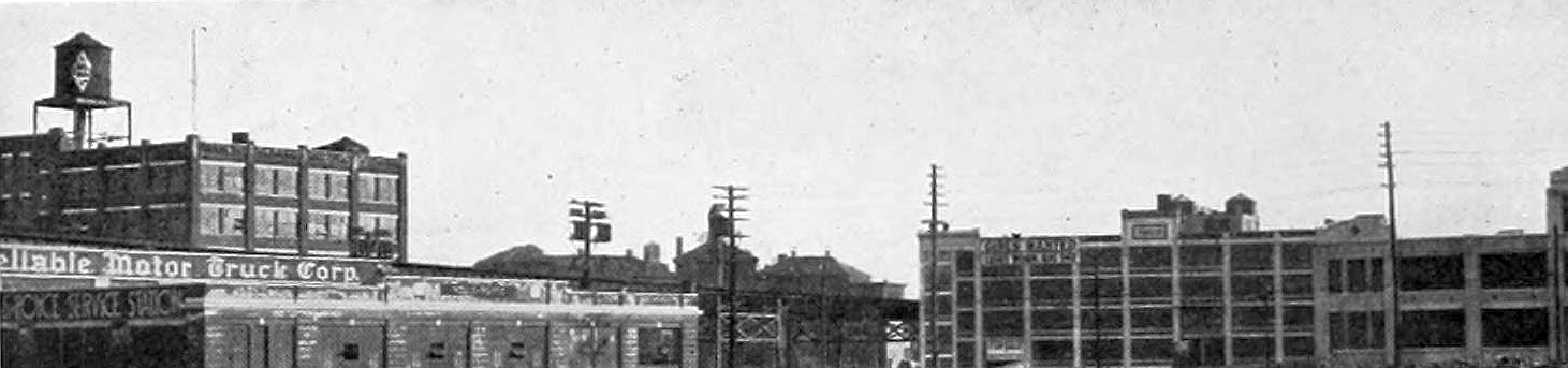 Queens, New York City, looking south from Queensboro Bridge.